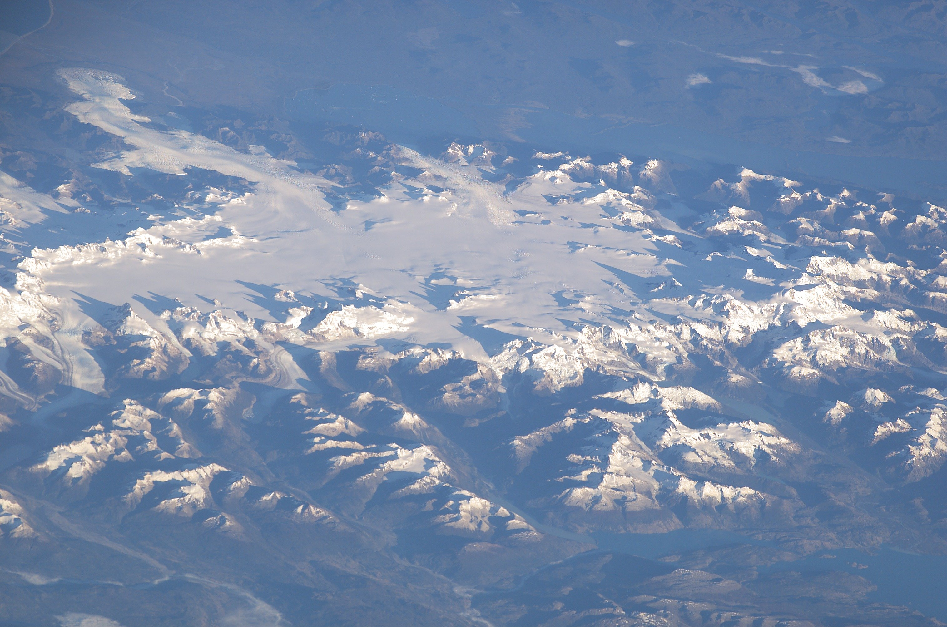 Campo de Hielo Norte, Chile. View heading NW.